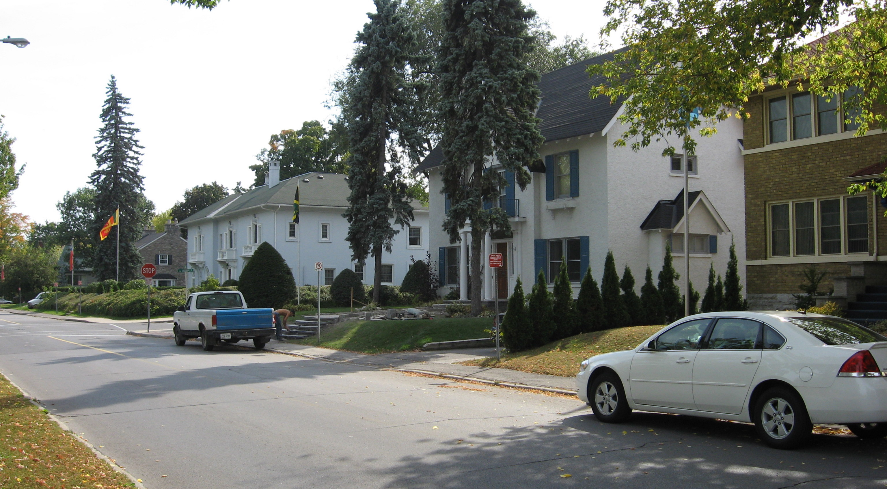 Range Road in Ottawa, showing several embassies as part of Embassy Row